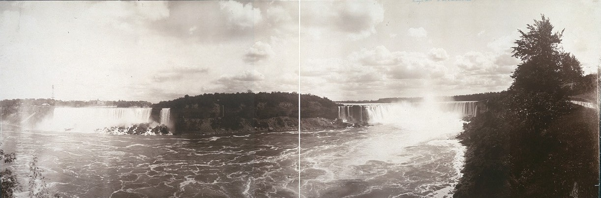 Niagara Falls, photographed by William H. Rau circa 1896.